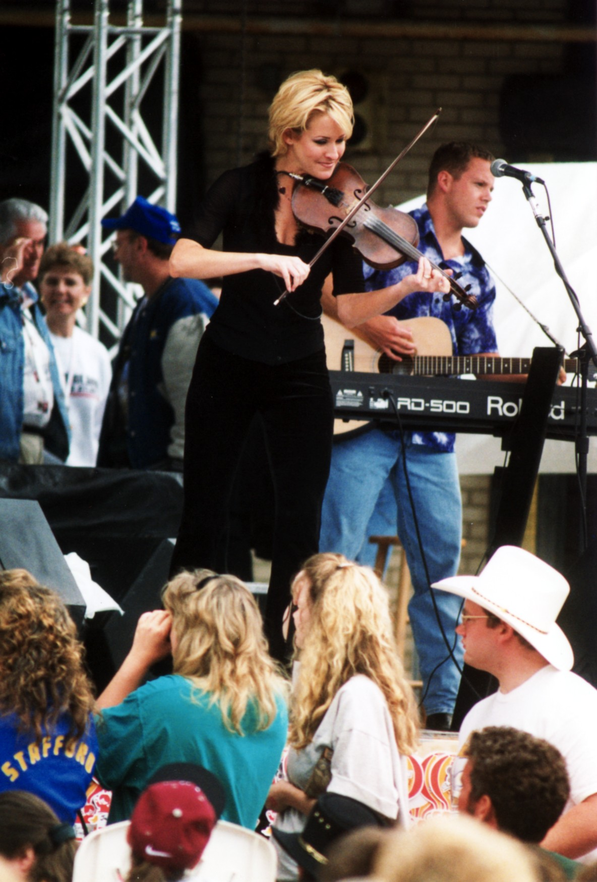 Martie Maguire with the Dixie Chicks at the Country For Kids concert in 1998 in Stafford, VA